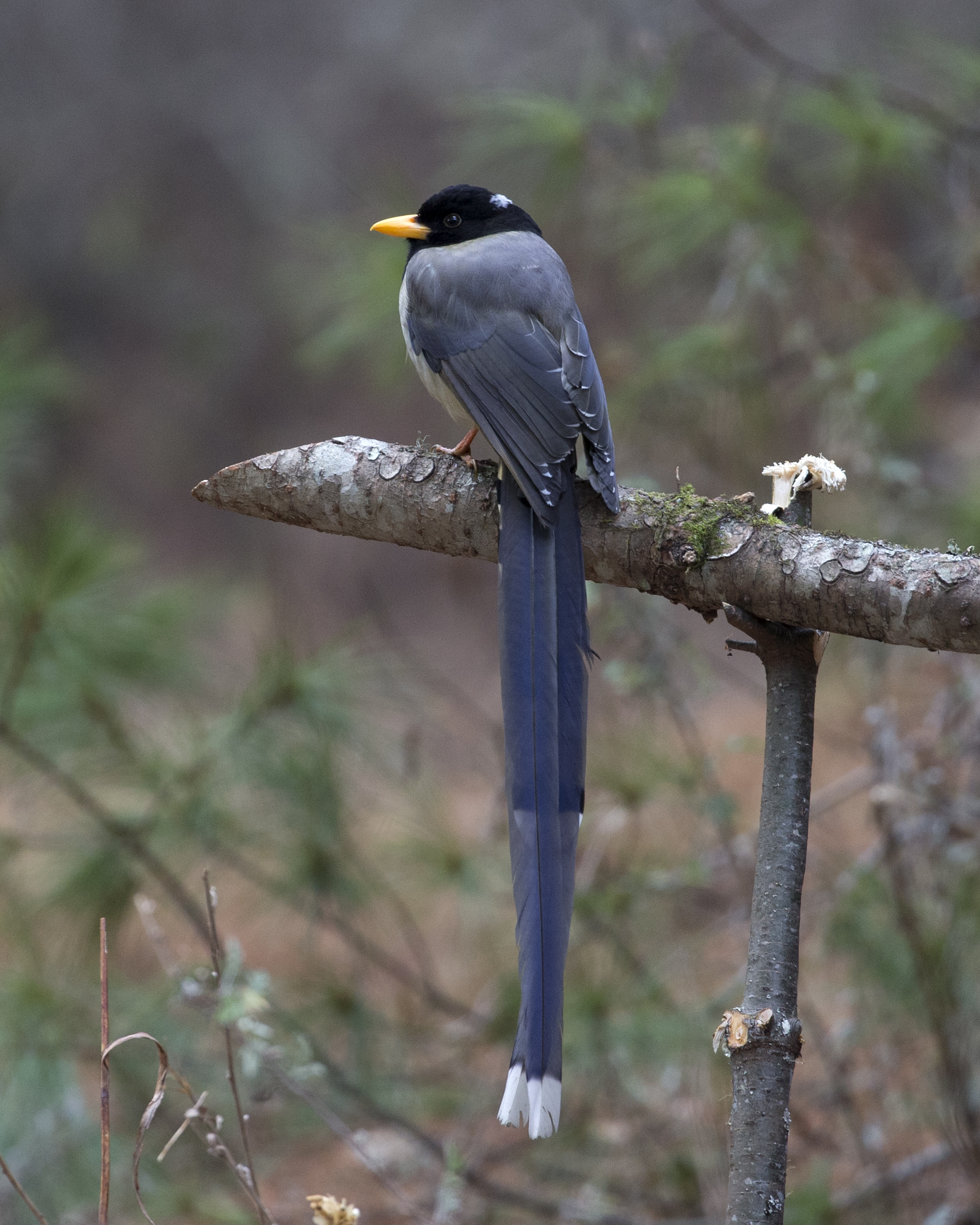 Yellow-billed Blue Magpie Urocissa flavirostris flavirostris Chelala Pass, Bhutan 19 February 2017 CF2P7581